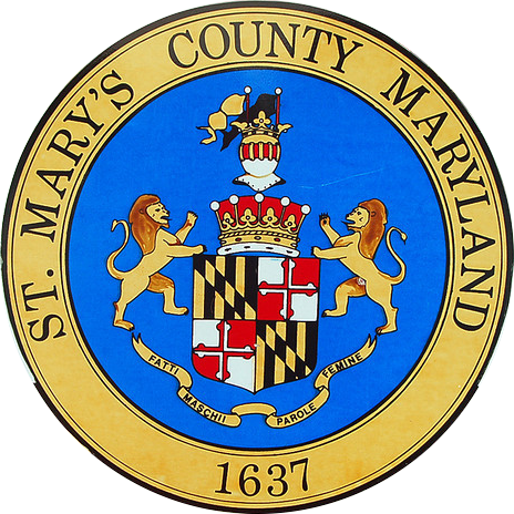 Seal of Kent County, Maryland, adopted in 1963.